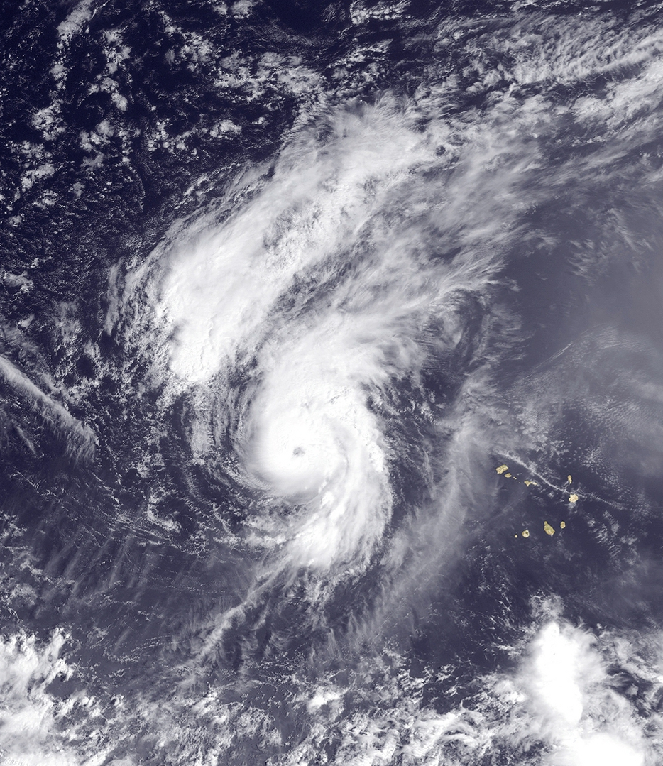 Hurricane Julia on September 15, 2010